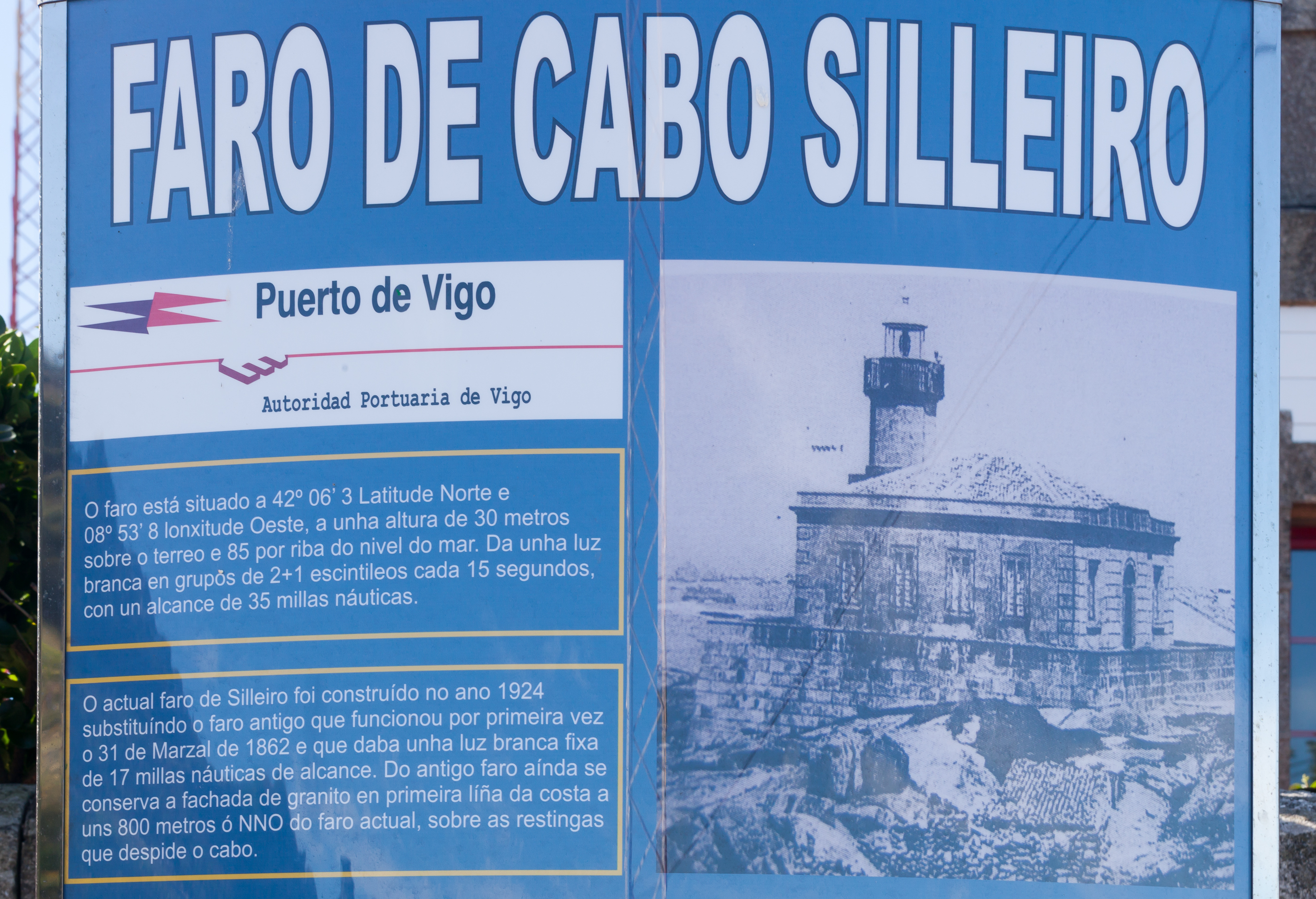 Lighthouse of Silleiro cape, , Baredo, Baiona, Galicia (Spain).